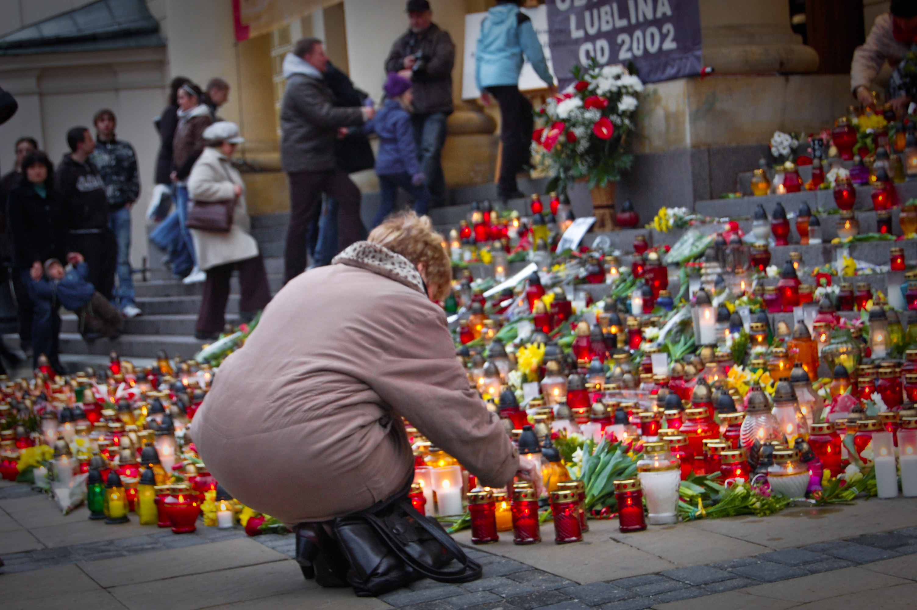 Lublin after president Lech Kaczyński's plane crash. New Town Hall, Łokietek Square.